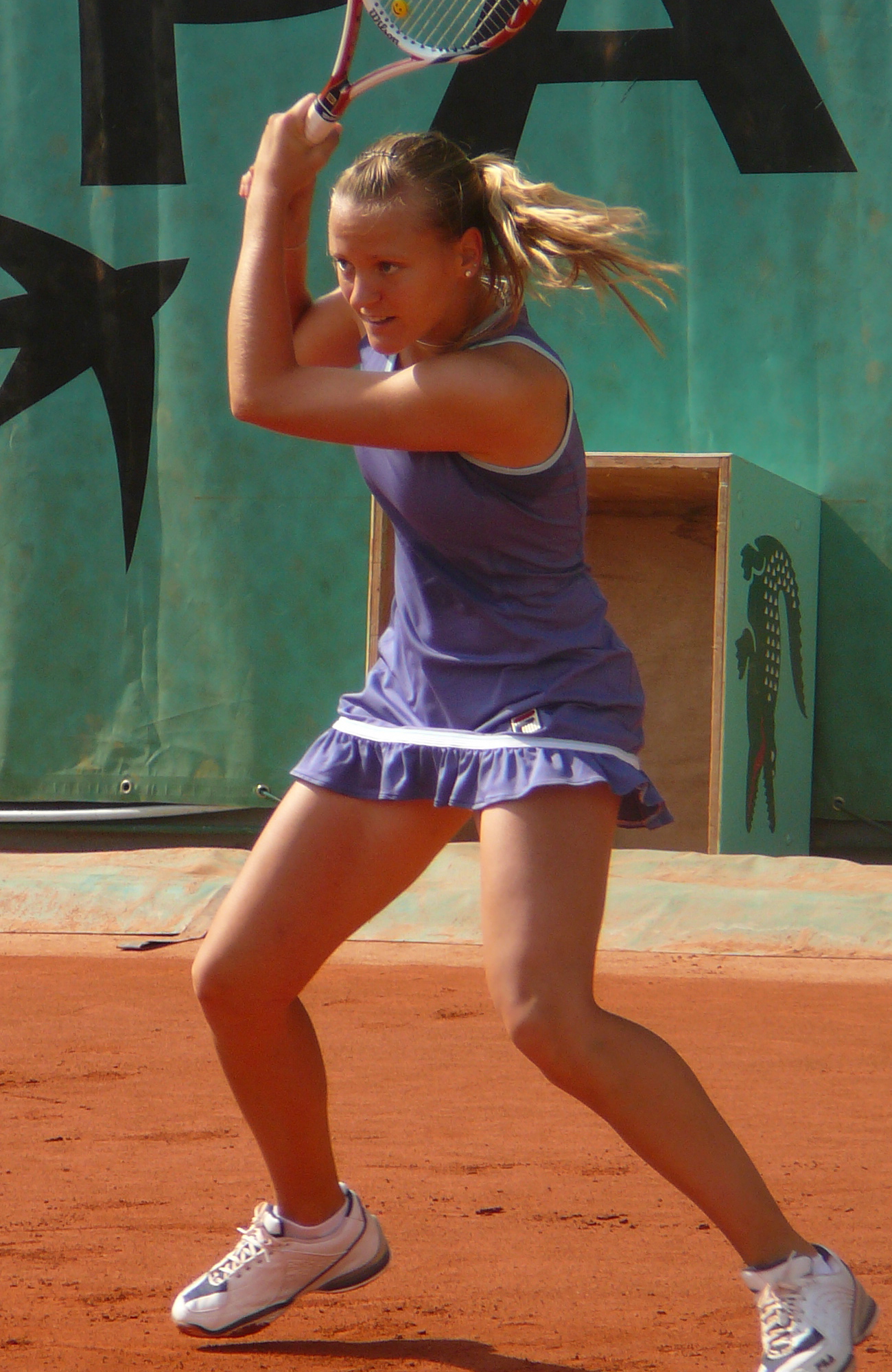 Ágnes Szávay at RG 2008, training